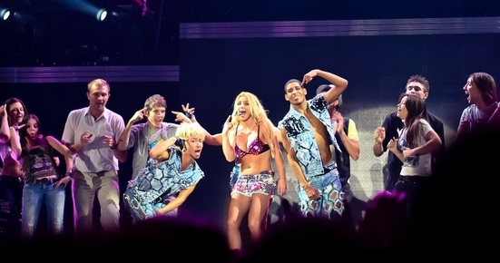 Britney Spears performing "I Wanna Go" at 2011's Femme Fatale Tour live in Ukraine.